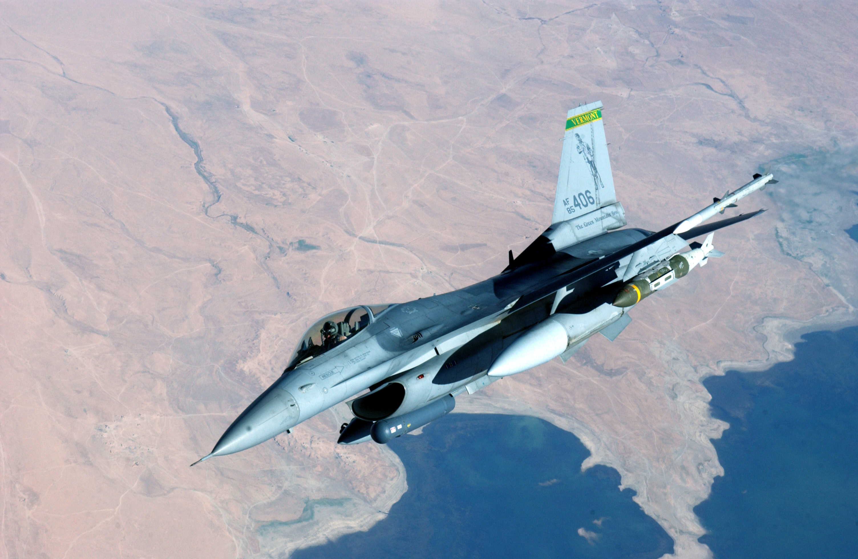 USAF F-16CJ. A GBU-31 JDAM and LITENING II Targetting Pod are visible.